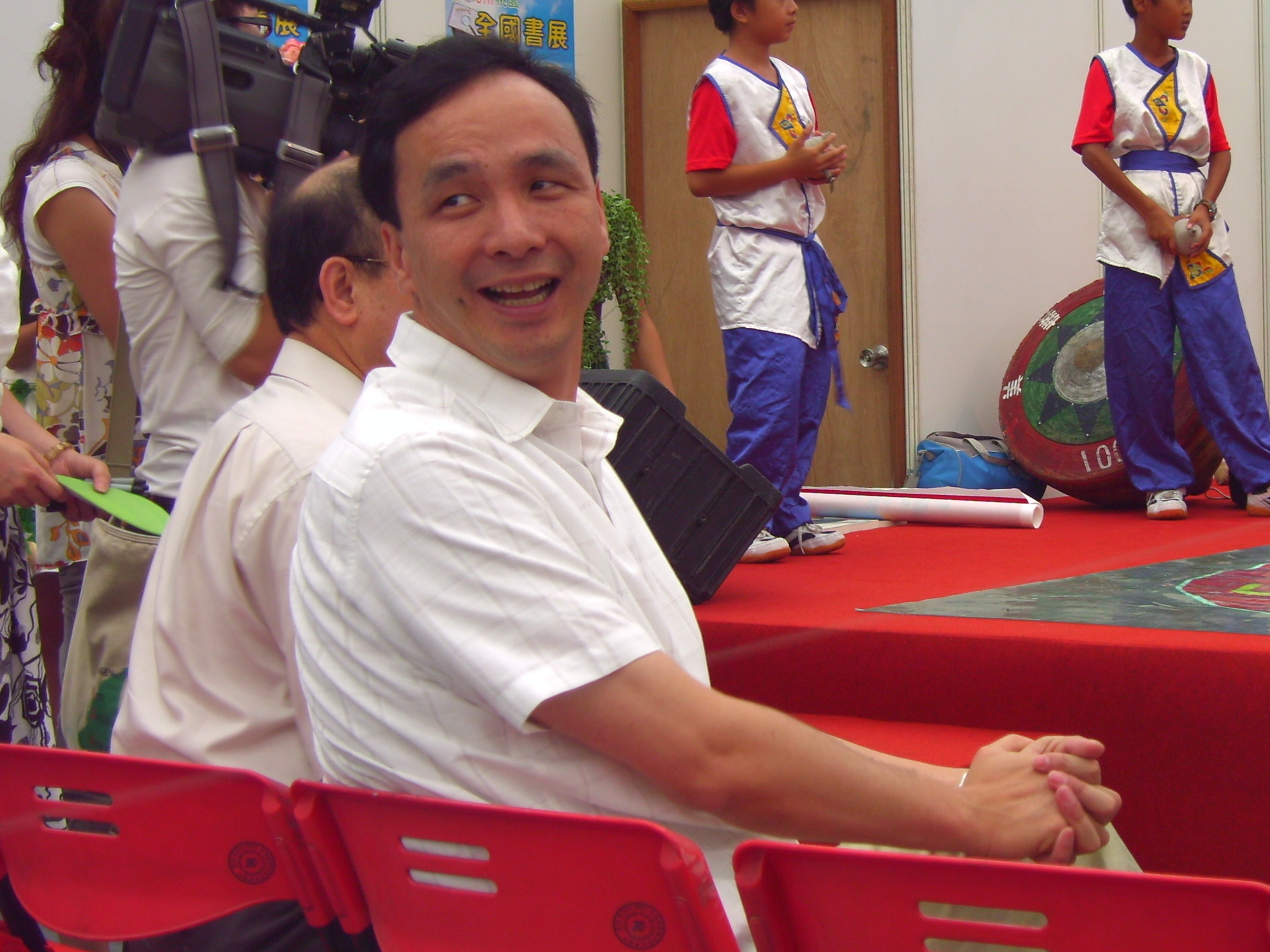 Mayor of Taoyuan County, Taiwan Eric Liluan Chu